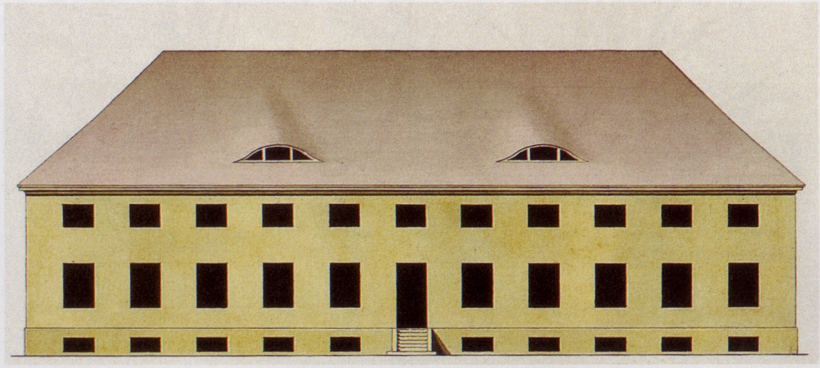 Illustration from the "Paretzer Skizzenbuch" (sketchbook). The so called "Amtshaus" in Paretz near Potsdam, Germany.